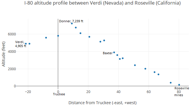 Diagram of altitudes along a 100-mile mountain stretch of the I-80 freeway in Nevada and California, peaking at Donner saddle